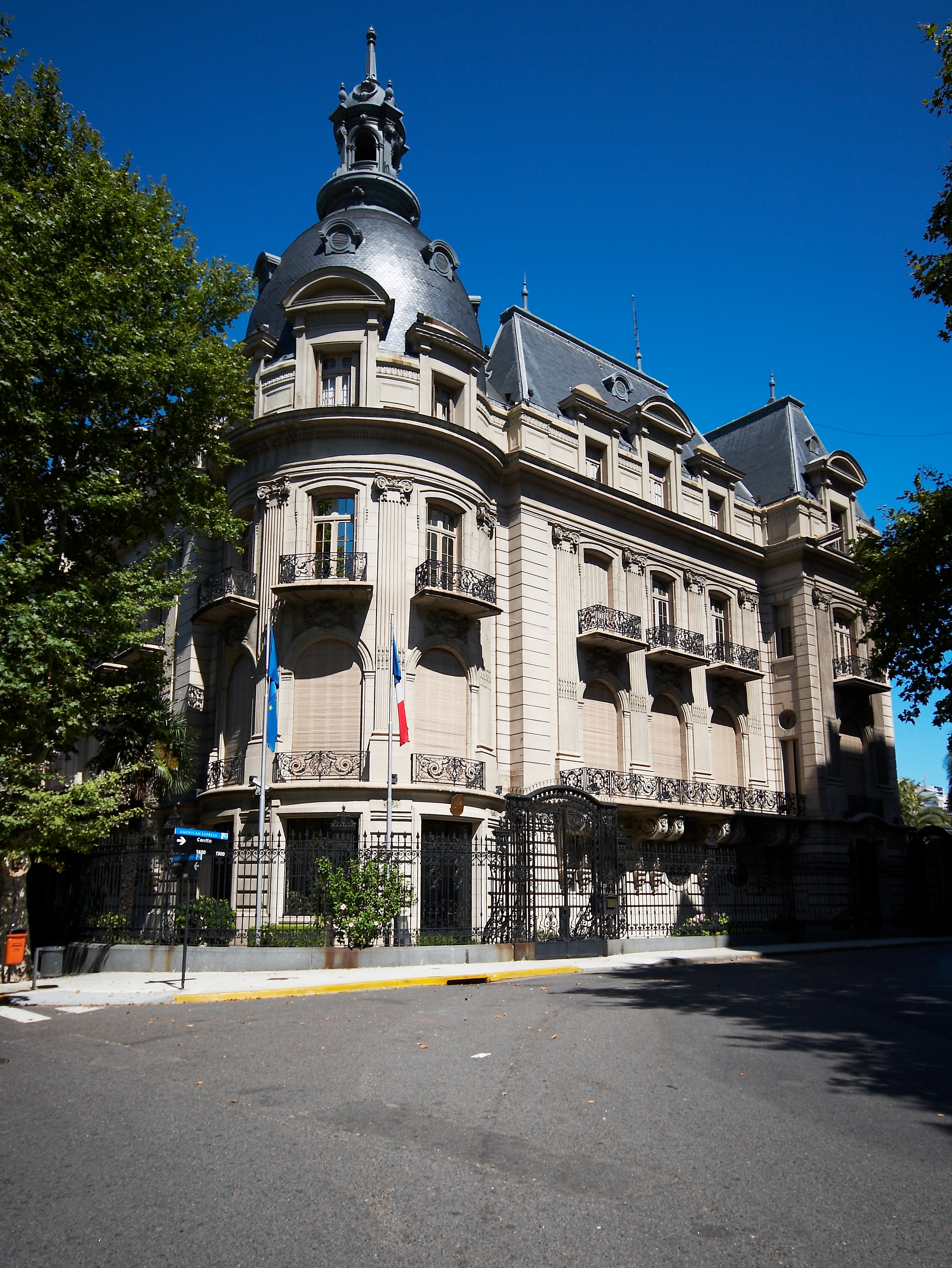 Palacio Ortiz Basualdo, French Embassy, Alvear avenue, Buenos Aires, Argentina.